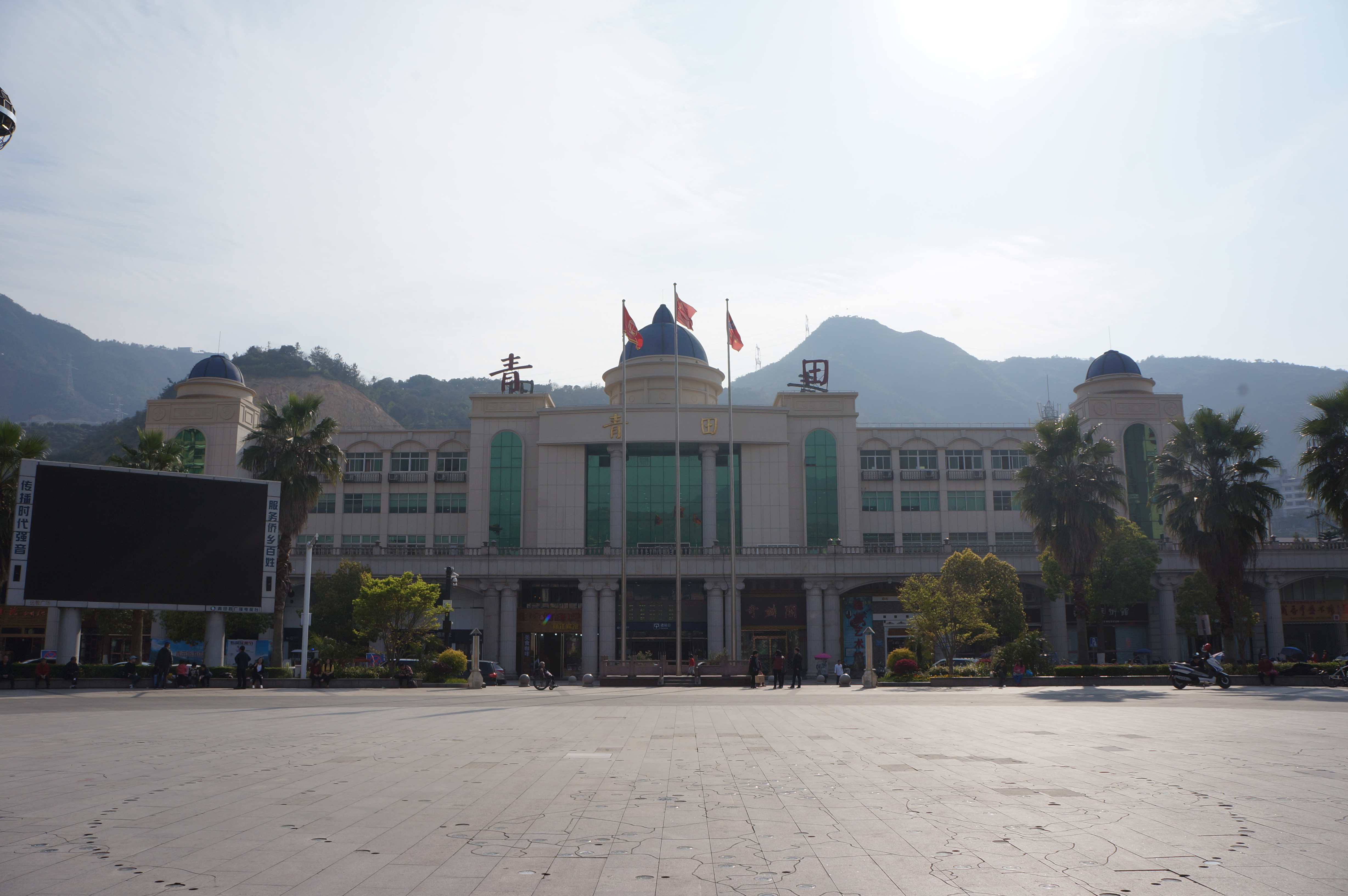 201704 Qingtian Station. Fake-European style indicates this city's special identity.